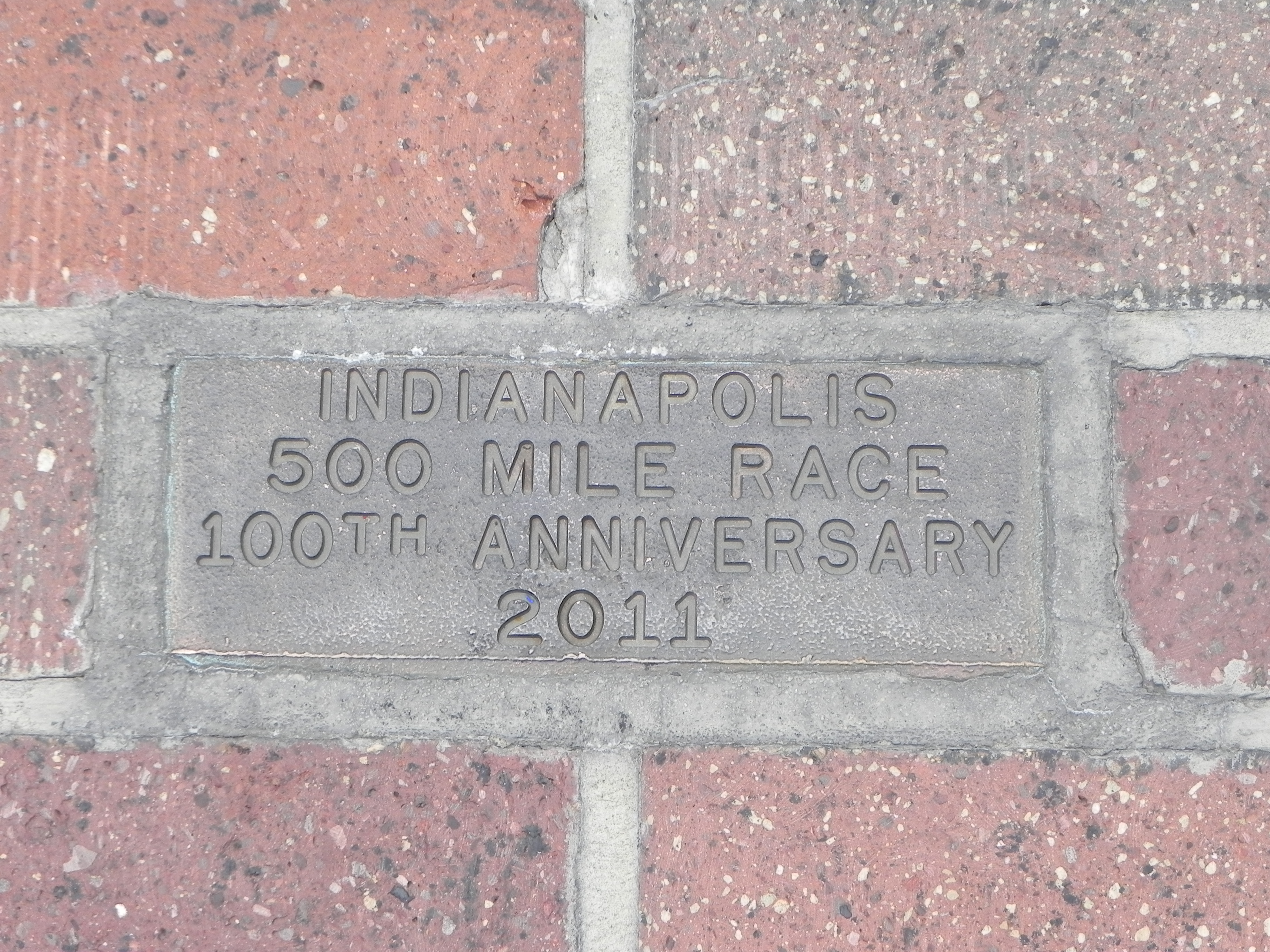 Ceremonial "Golden Brick" installed at the start/finish line at the Indianapolis Motor Speedway. Brick was placed in the famous 'yard of bricks' at the Speedway in 2011 to commemorate the 100th anniversay of the first Indianapolis 500 (1911).